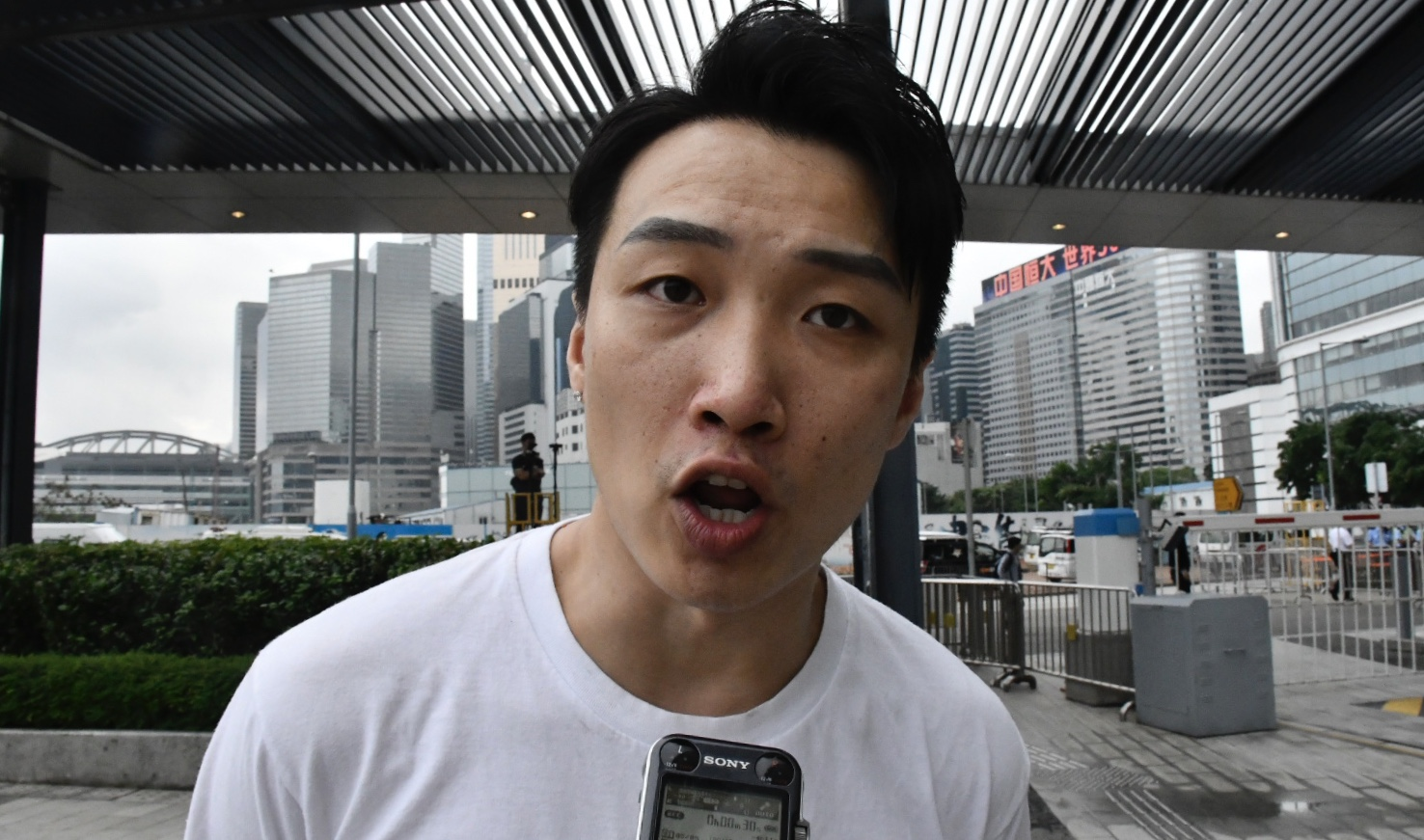 Depicted person: Jimmy Sham – convener of the Civil Human Rights Front